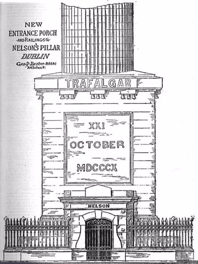 1894 design for new porch and railings for Nelson's Pillar in Dublin, Ireland. This design was by Irish architect George Palmer Beater (1850-1928). This view shows the south elevation, facing Lower Sackville Street.